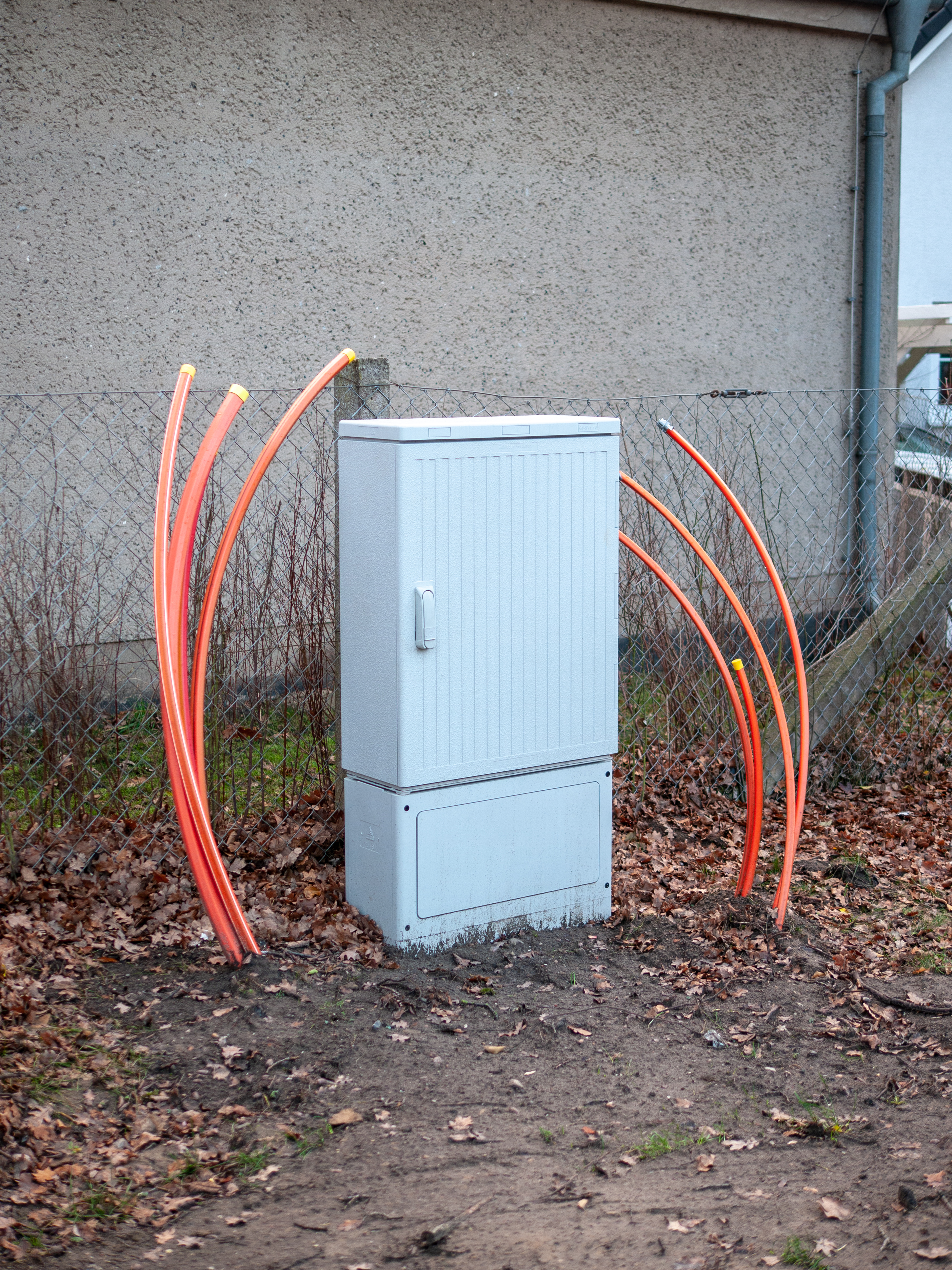 Utility box for fiberoptic cables in Damgarten